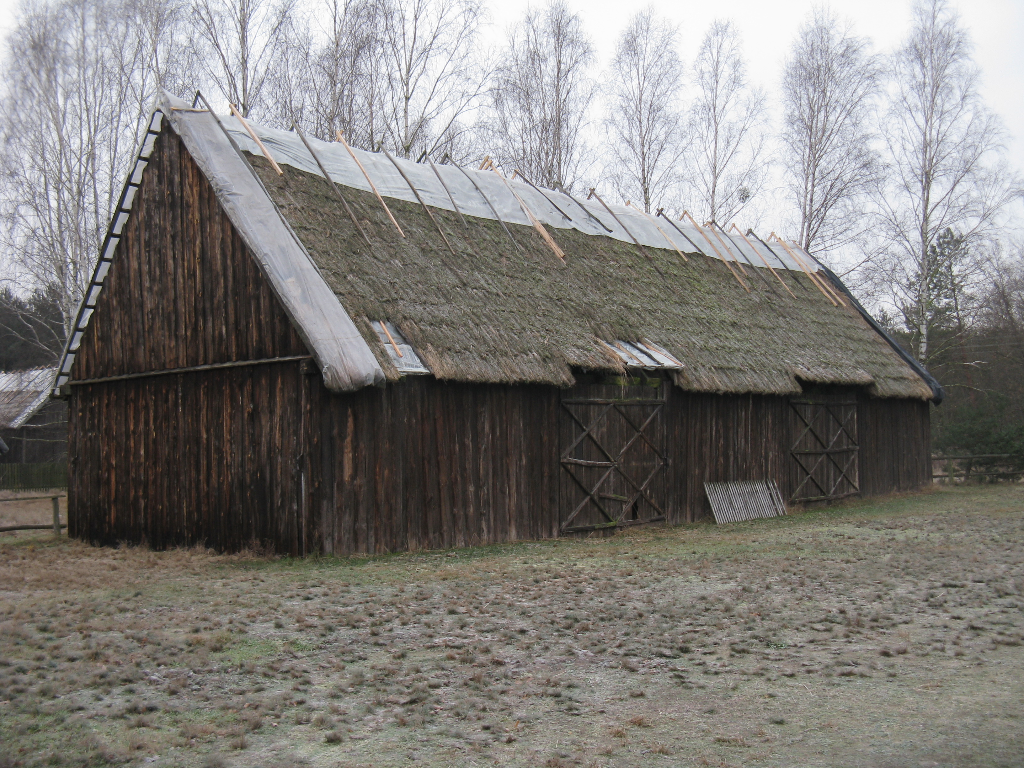 open air museum in Granica